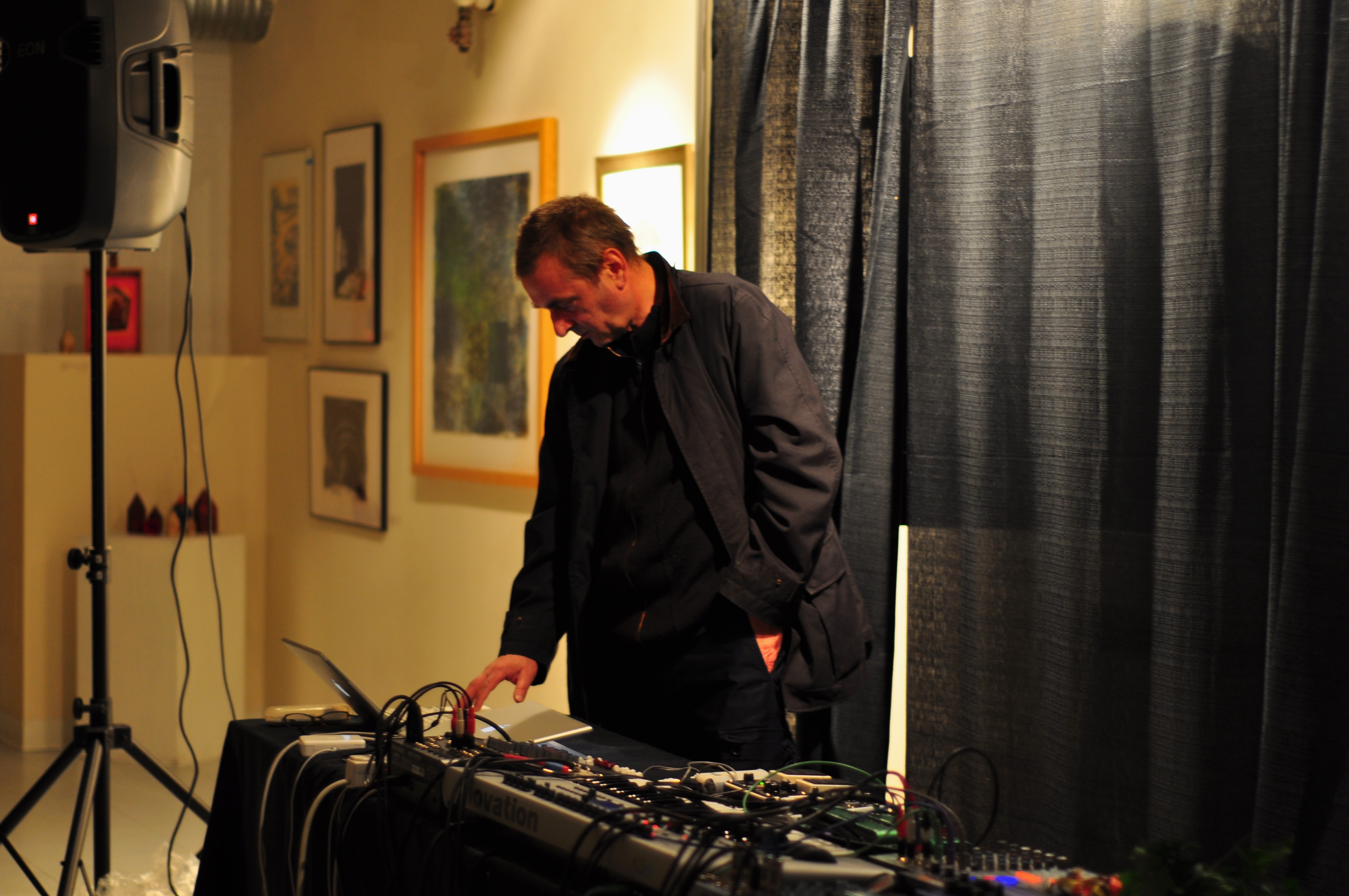 Zbigniew Karkowski, preparing for a concert at Pyramid Atlantic Art Center, Silver Spring, Maryland